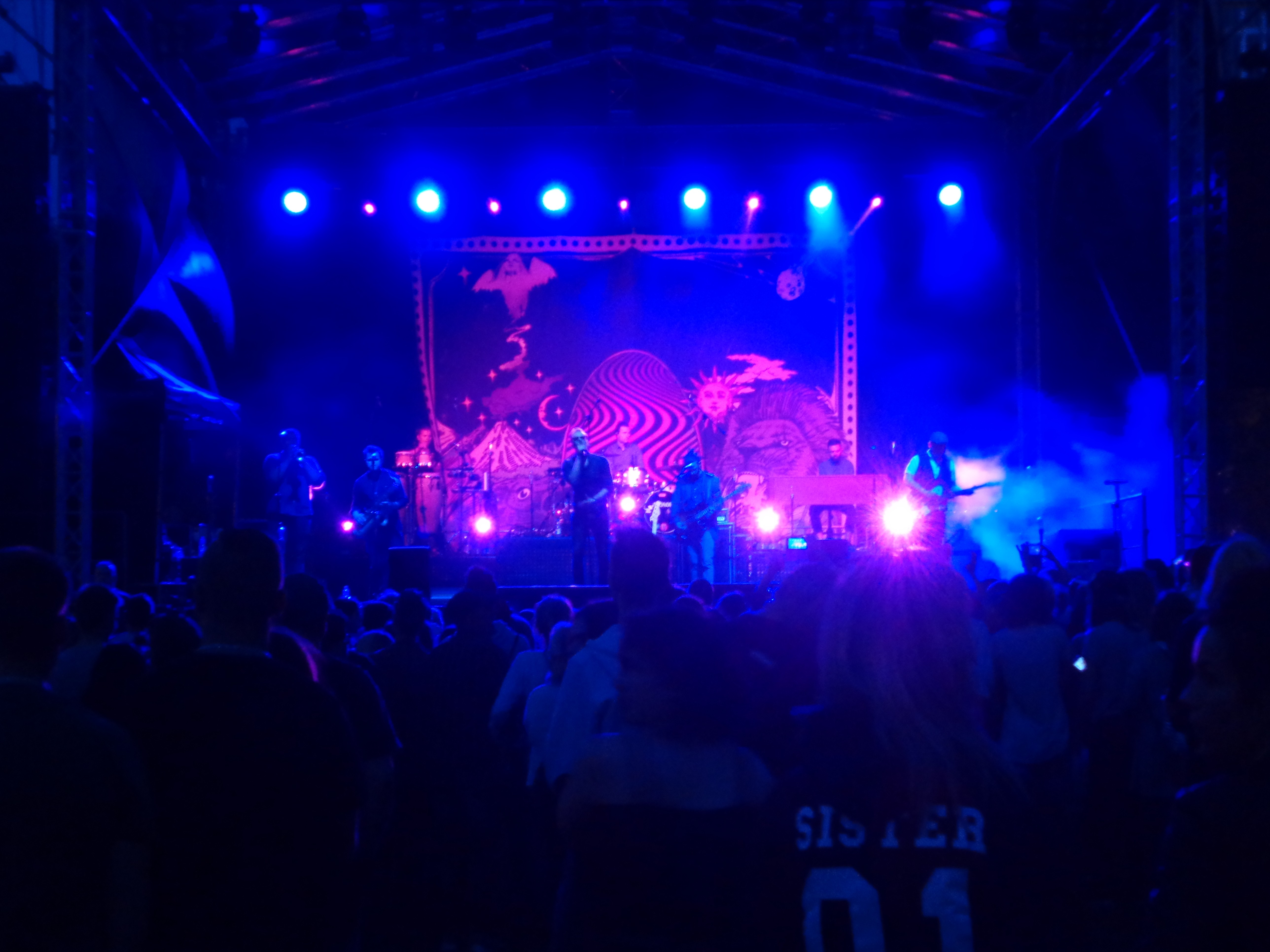 Concert of Mrozu during May Holiday Party at Boulevards in Włocławek.